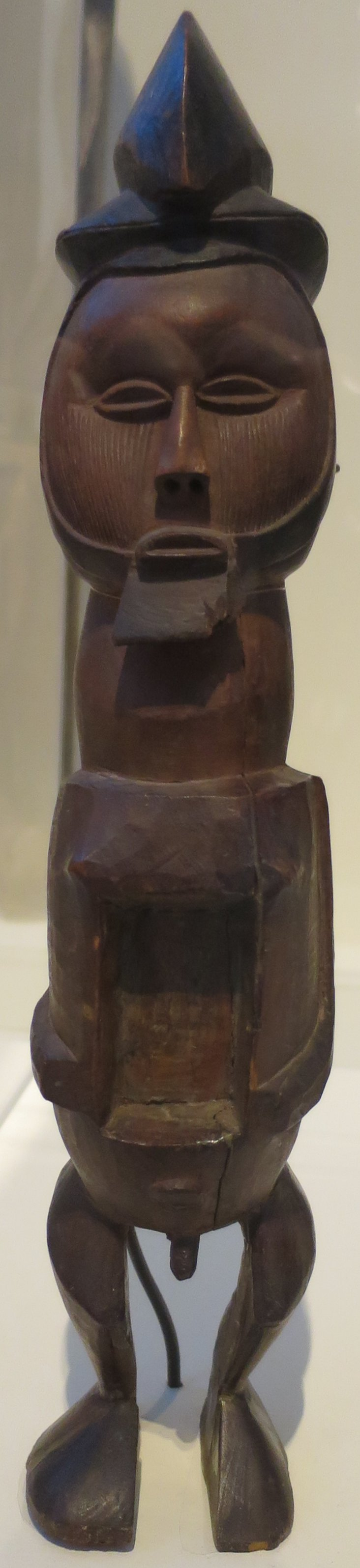 Male figure (butti), Teke people, Democratic Republic of the Congo, first half 20th century, carved wood, Honolulu Museum of Art, accession 2456.1